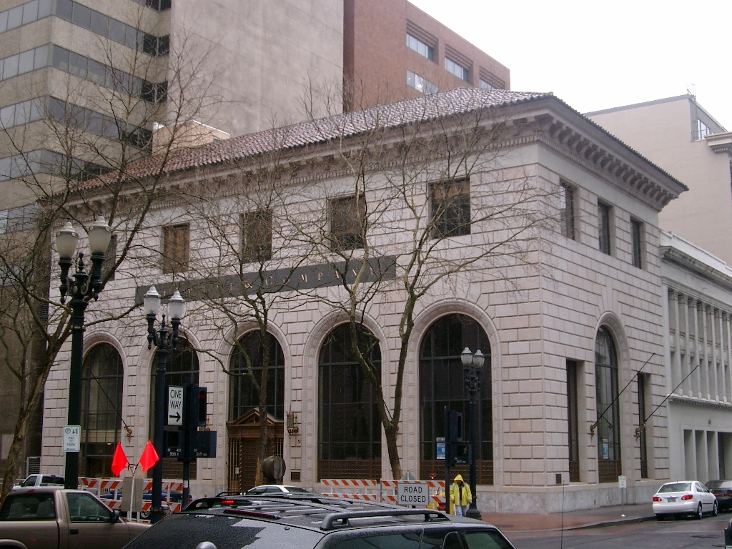 The Bank of California Building in Portland, Oregon in 2007. Sixth Avenue, which the building fronts, was closed for the installation of northbound tracks for the MAX Green Line at the time this photo was taken.